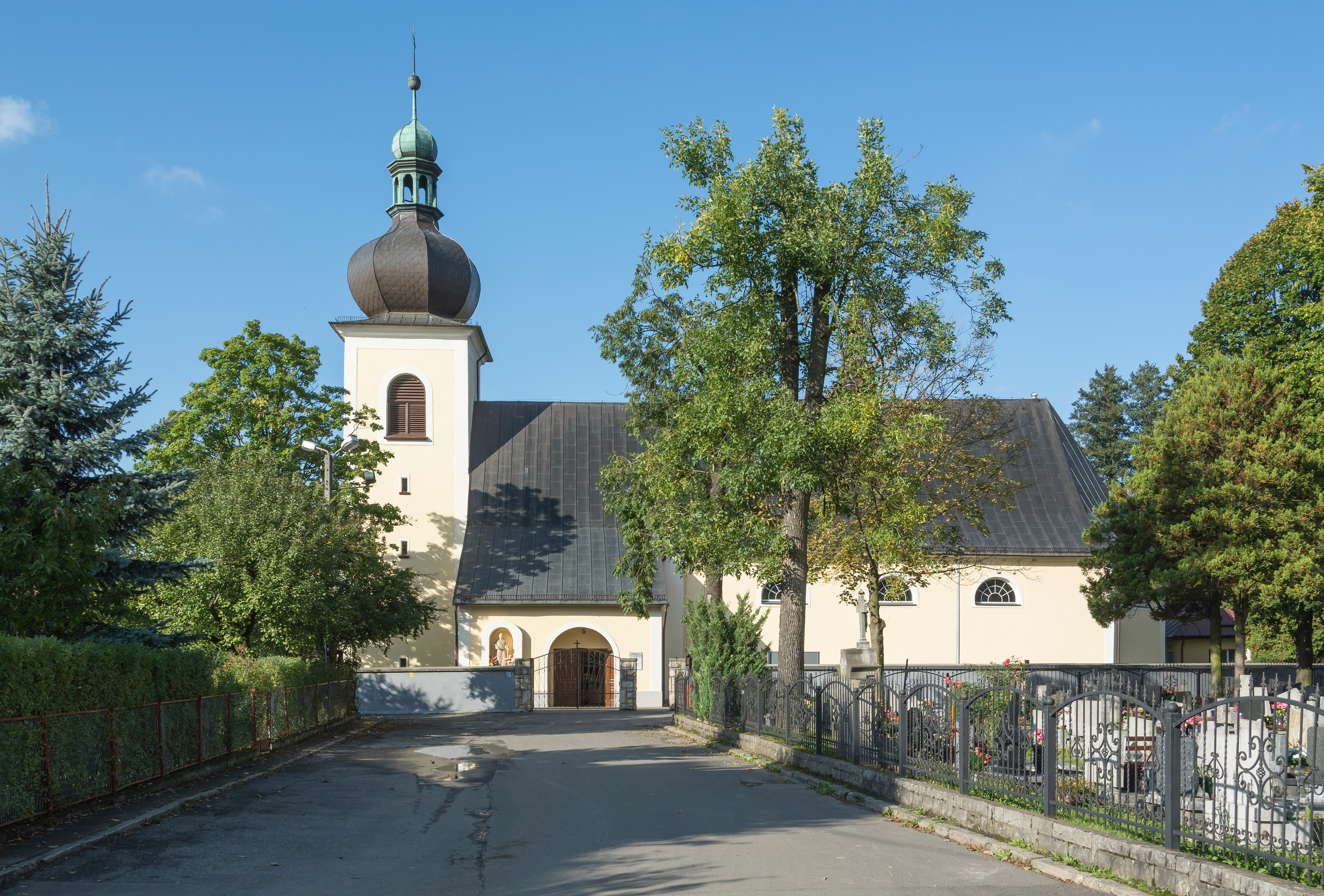 Church of Sts. Catherine in Kudowa-Zdrój